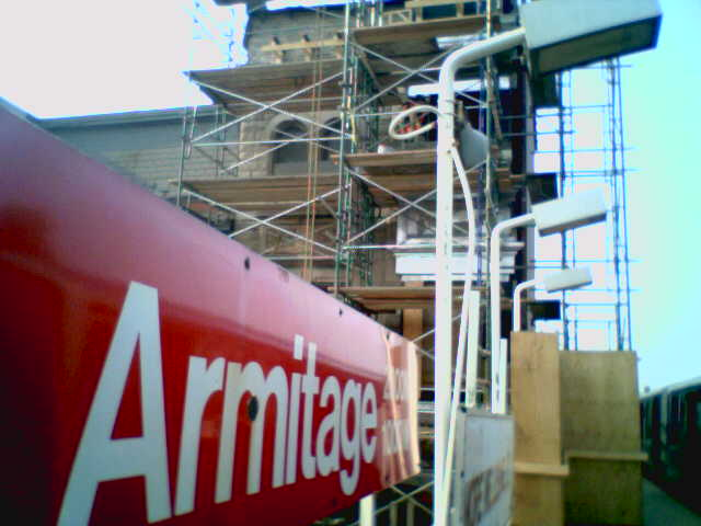 Self Shot on May 29th 2007 around 8 am in chicago on the Armitage brown line stop during renovation